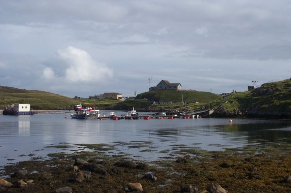 Out Skerries, Shetland Islands. The North Mouth of Skerries separating the islands of Housay and Bruray.